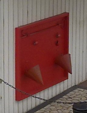 Firefighting equipment: pike pole and buckets. Moscow.